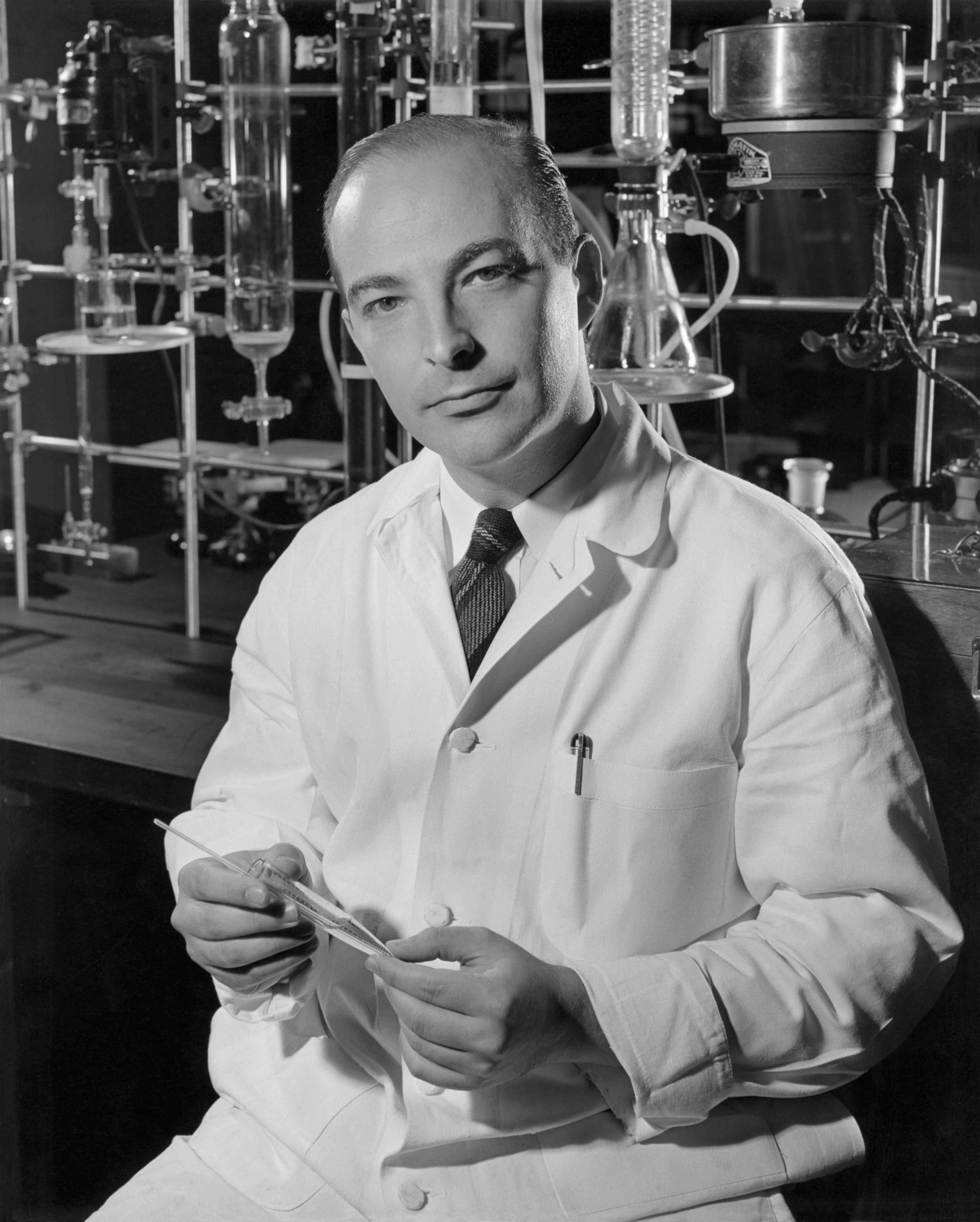 Dr. Arthur Kornberg in his laboratory. Kornberg joined the Public Health Service in 1942 and was assigned to the National Institute of Health, Laboratory of Chemistry to work on nutrition research. In 1948 he created an enzyme and metabolic section in the Laboratory. The Laboratory of Chemistry became the National Institute of Arthritis and Metabolic Diseases in 1950 and Dr. Kornberg remained at the Institute until 1953. While at NIH, Dr. Kornberg initiated a series of investigations into nucleotide biochemistry. After leaving the National Institutes of Health, Arthur Kornberg was awarded the Nobel Prize in Medicine and Physiology.